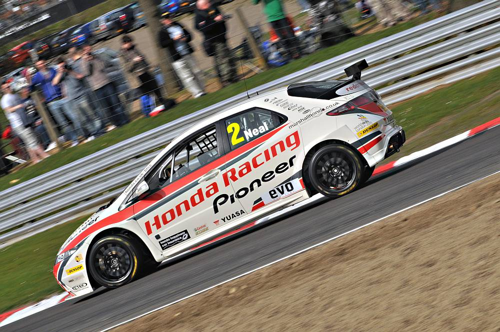 2011 BTCC Champion Matt Neal driving his Honda Civic at the Brands Hatch round in April 2011.